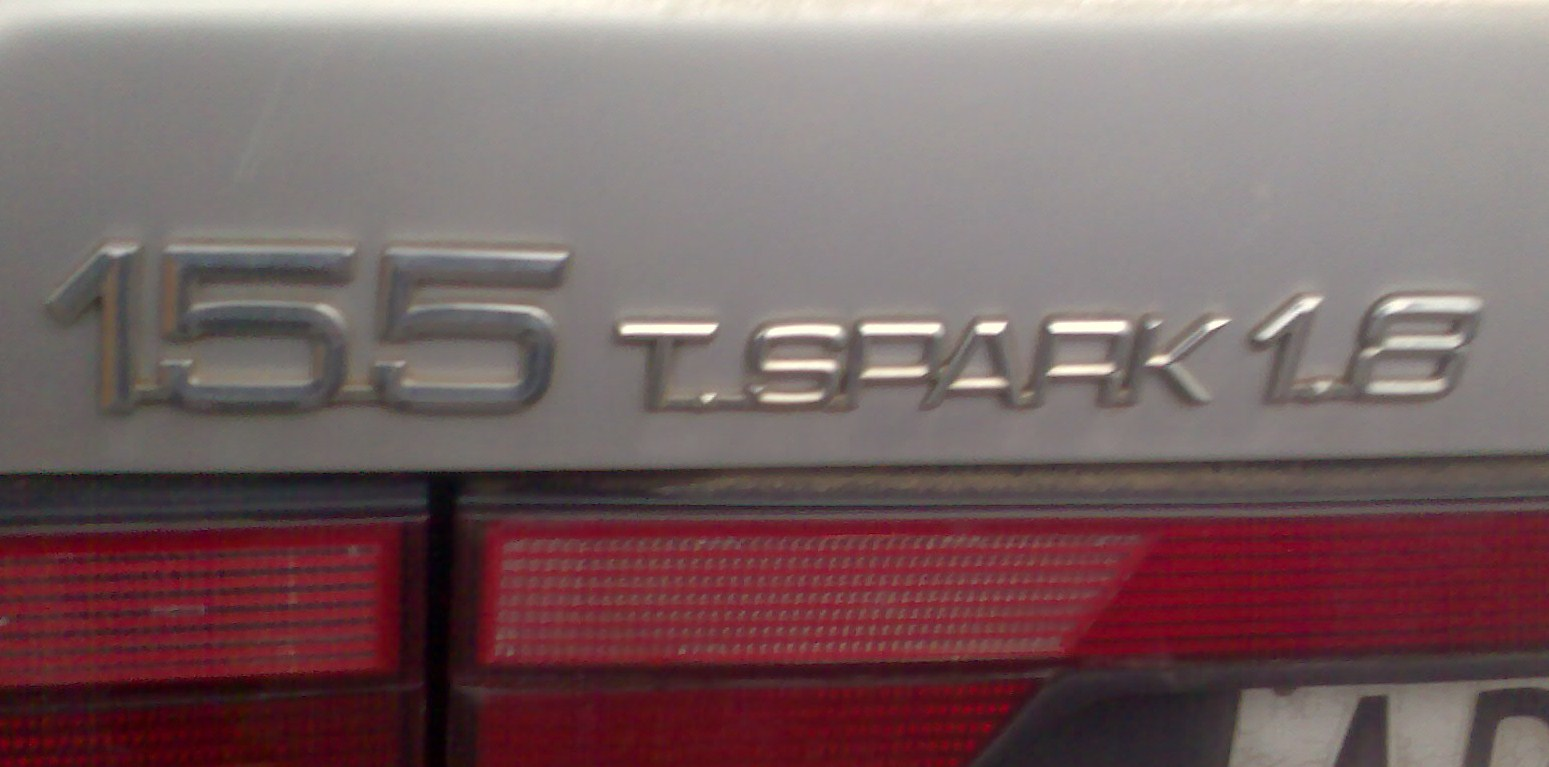 155 logo